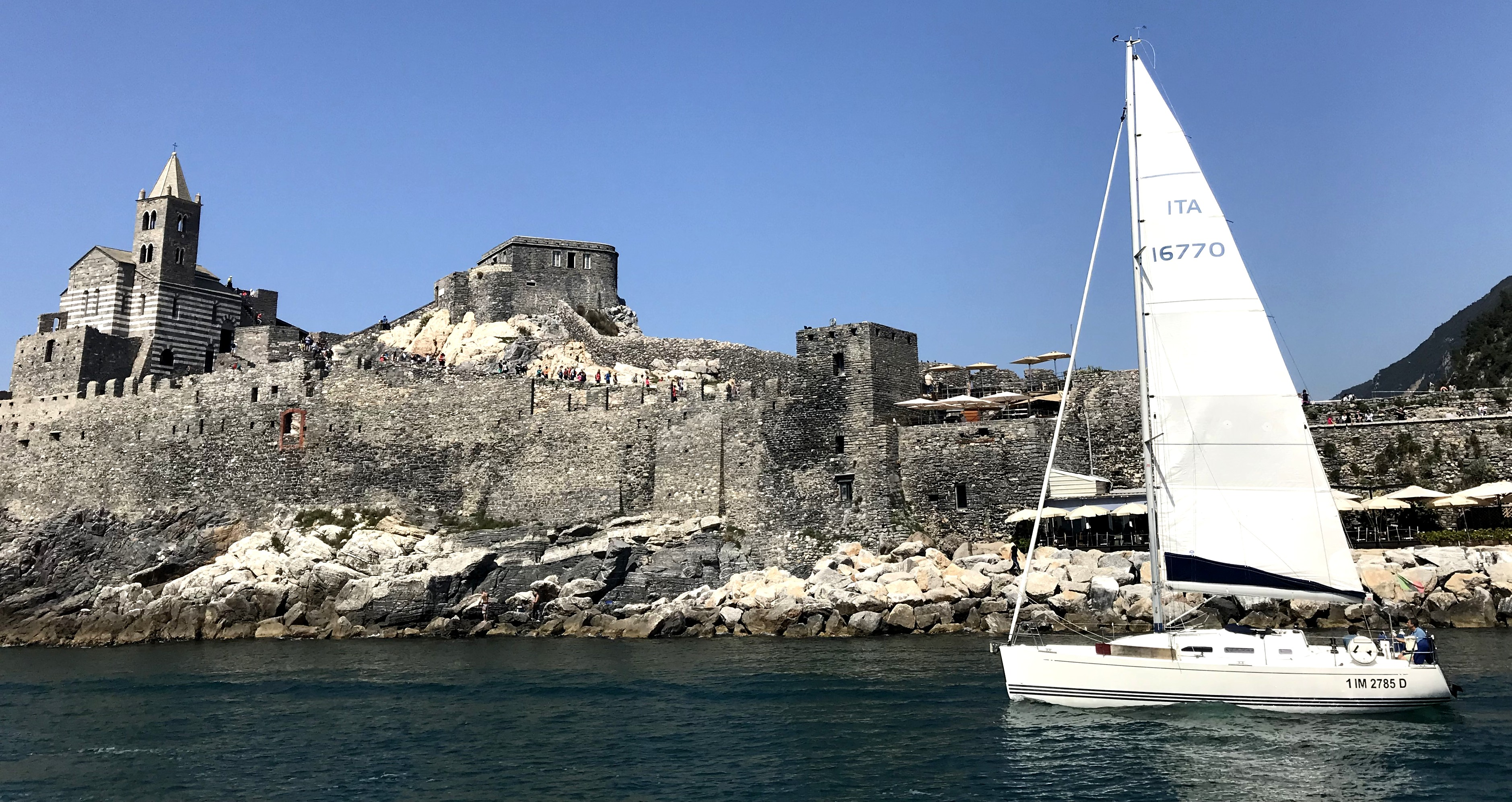 Portovenere